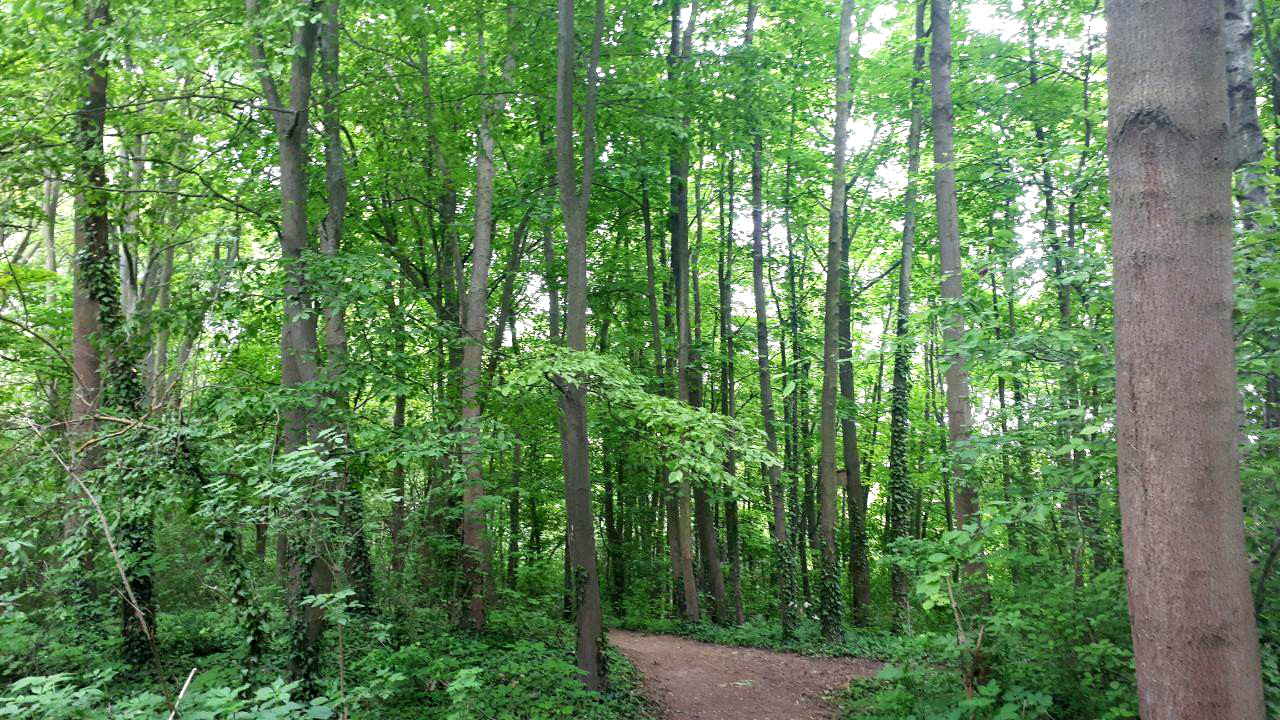 A picture of the forest Neuborn